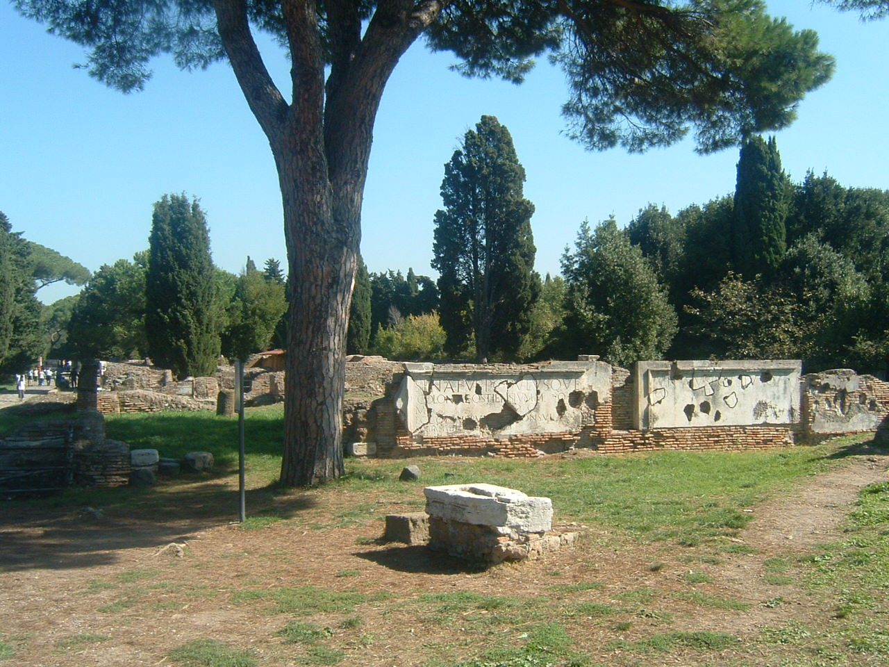 Porta Romana, regio II of Ostia Antica, Italy.